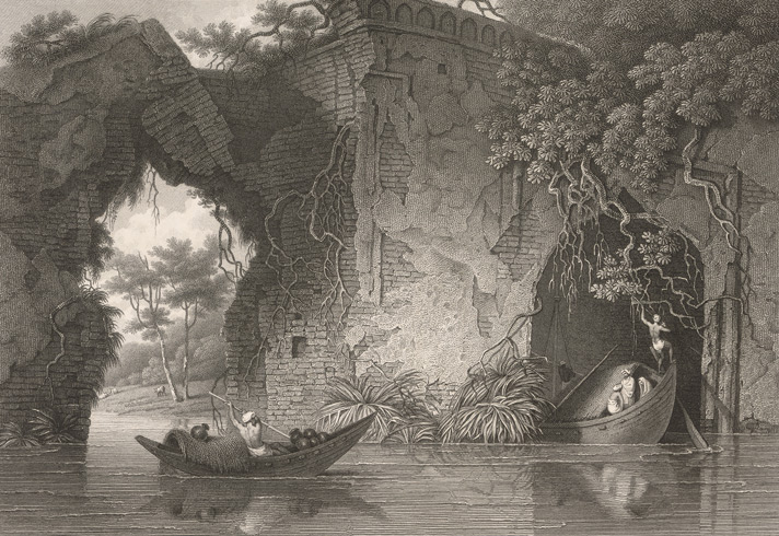 This etching was taken from plate 2 of Charles D'Oyly's 'Antiquities of Dacca'. The Tongi Bridge was often the scene of hunting parties of the 19th-century English residents of Dhaka, which is now the capital of Bangladesh. The historian James Atkinson wrote: "The bold and picturesque, though much shattered, ruins of Tungy Bridge have been thought to possess sufficient claims to its admission among our selection of Dacca antiquities. Its large masses are now fantastically overgrown with the wild roots and foliage of the banian tree." When Dhaka was a Mughal seat of government and at the zenith of its grandeur, this bridge was its northern limit and its southern limit was the Buriganga river, some fifteen miles away.